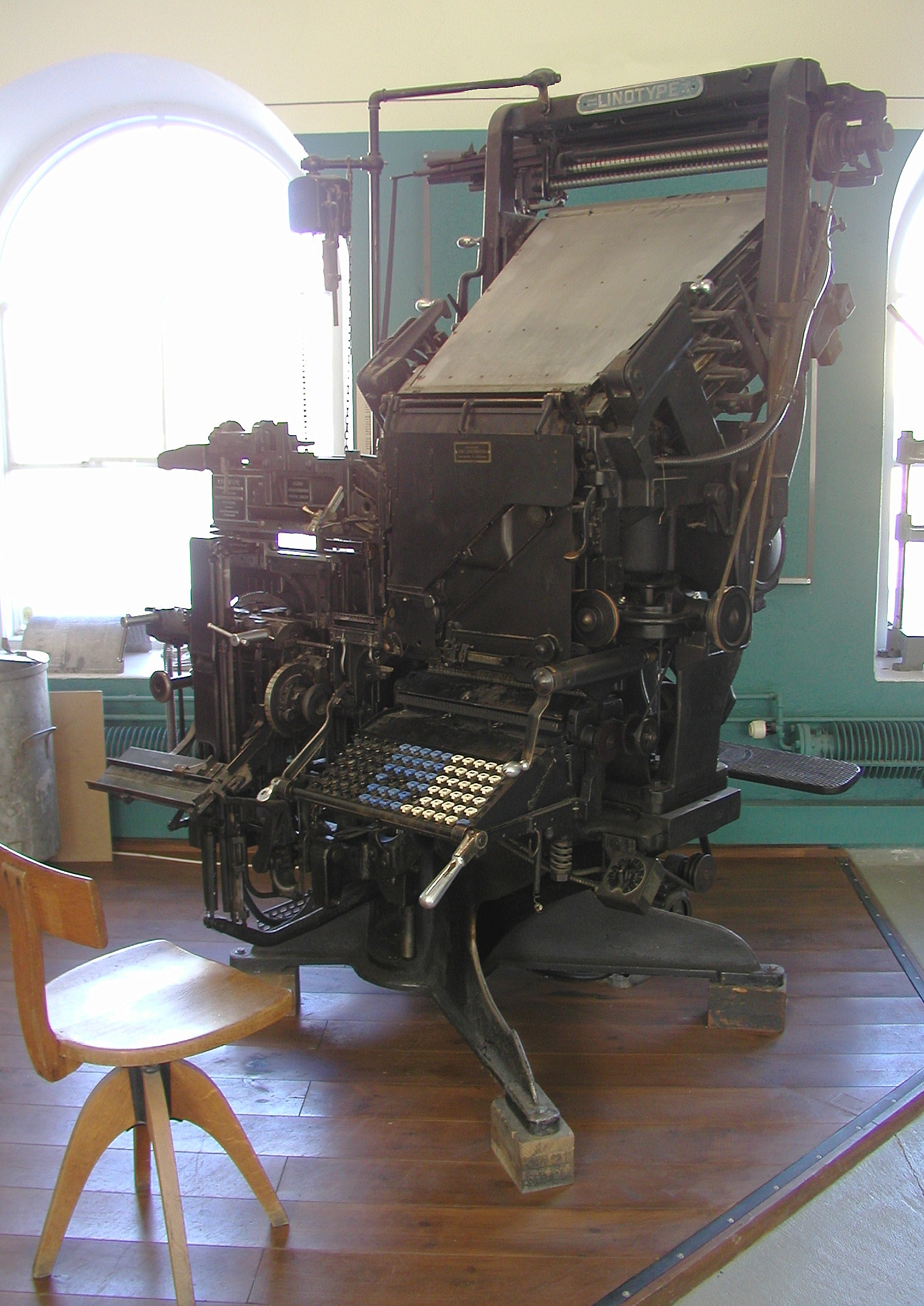 Linotype typesetting machine. Manufactured in New york. Used in Eskilstuna until 1987. Photo taken at Eskilstuna stadsmuseum (city museum), in Eskilstuna, Sweden